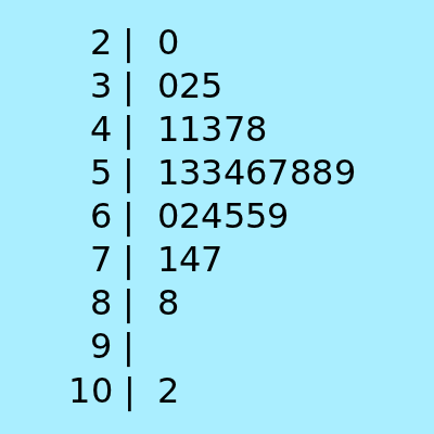 Stem-and-leaf plot